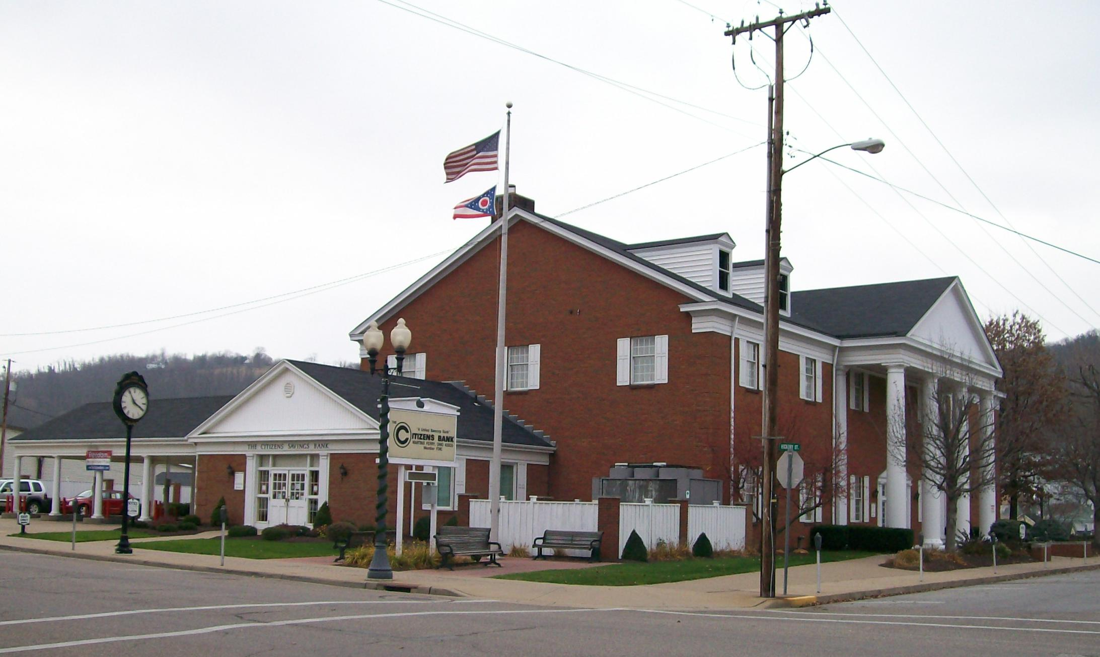 The site of Central School in Martins Ferry, Ohio. The school was demolished to build Citizens National Bank.